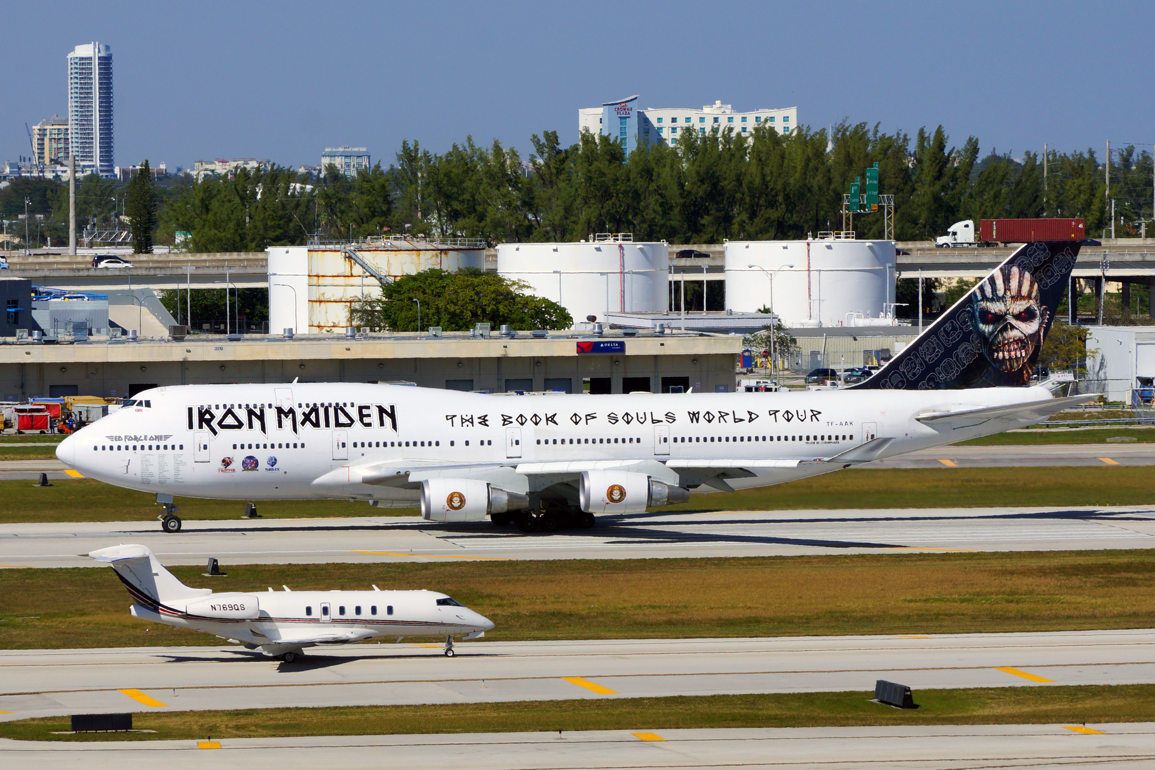 The band Iron Maiden and all of their world tour gear departs Ft. Lauderdale the day after kicking off their 2016 "Book of Souls" tour.